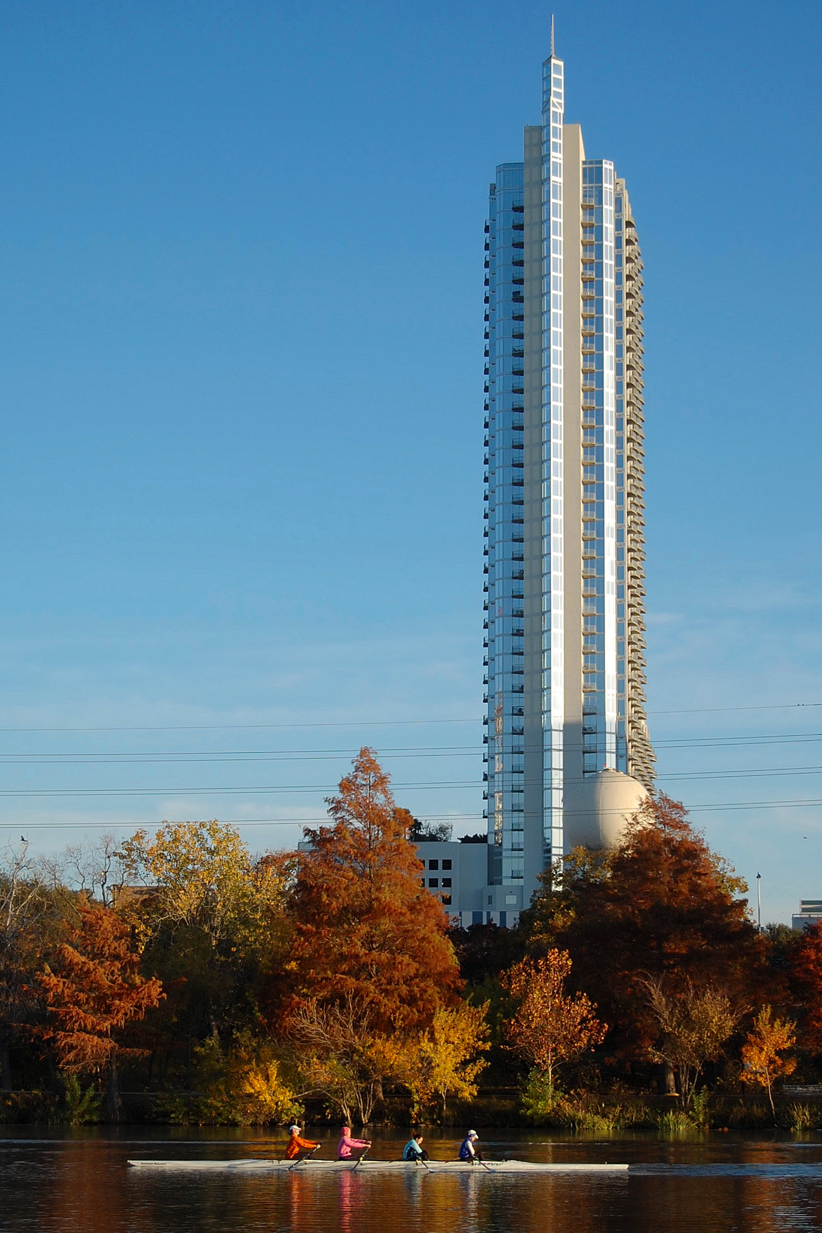 360 Condominiums